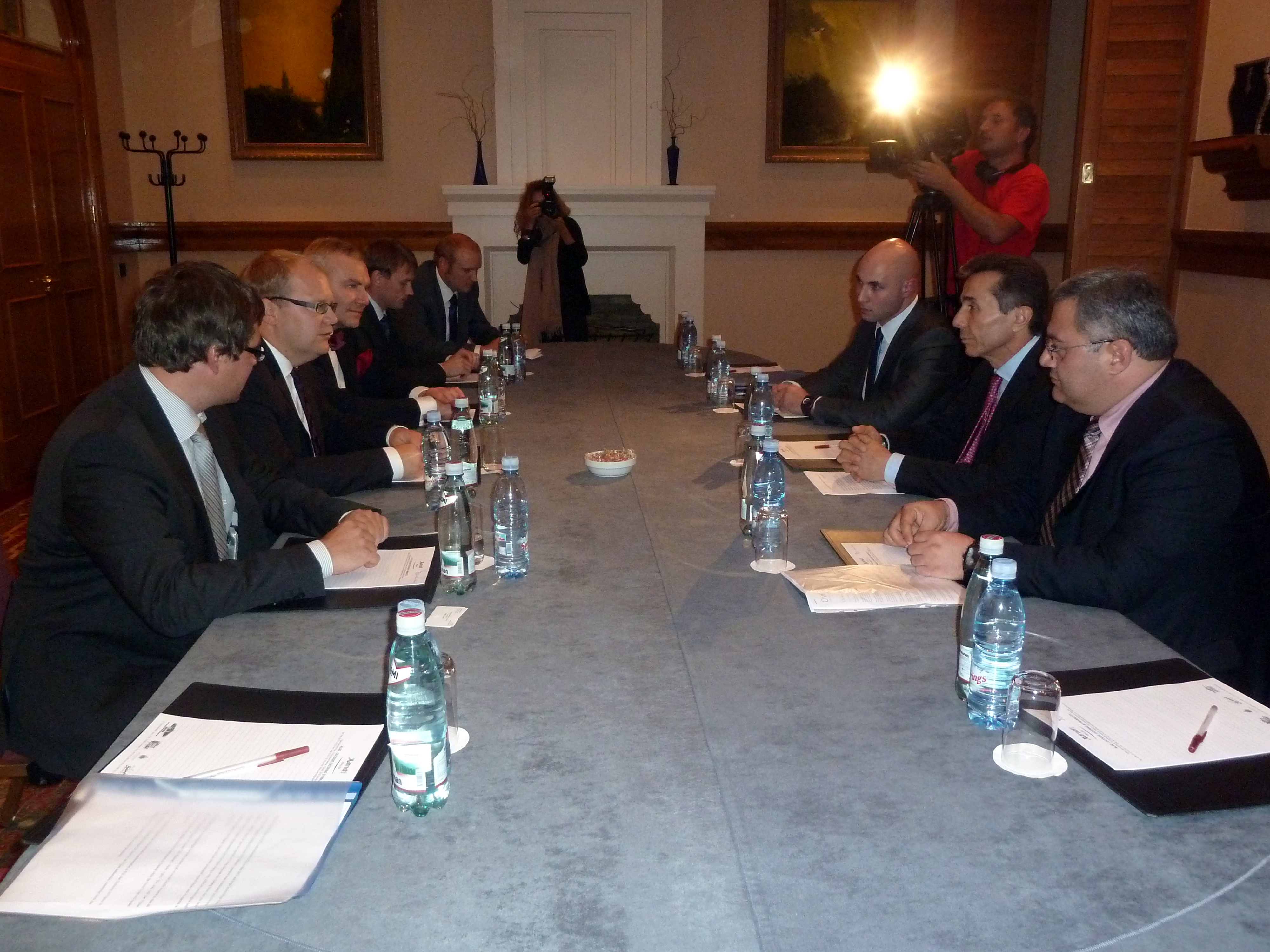 Estonian FM Urmas Paet with representatives of the Georgian opposition Bidzina Ivanishvili and Davit Usupashvili